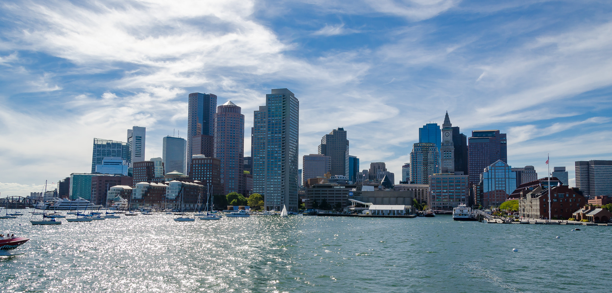 500px provided description: Boston Skyline [#city ,#urban ,#architecture ,#cityscape ,#building ,#skyline ,#boston ,#massachusetts]